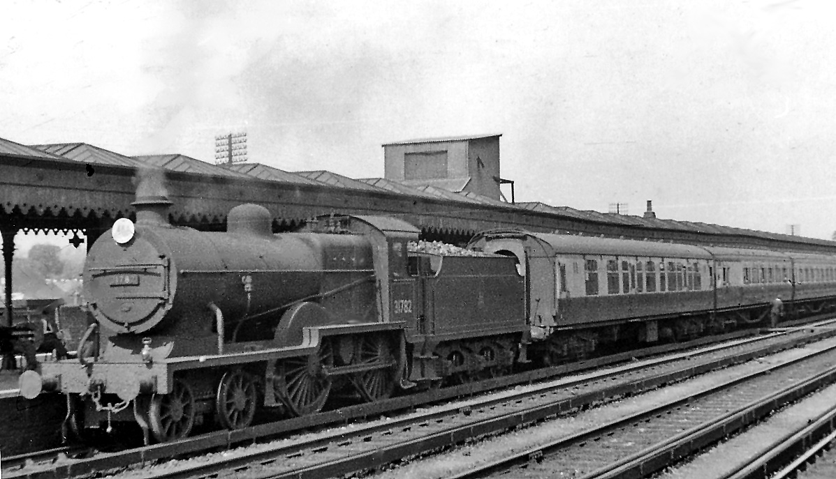 Birmingham - Margate express at Redhill. View NW, towards London: ex-LB&SC London - Brighton main line and ex-SE&C lines from Guildford and Reading and to Tonbridge etc. SR Maunsell class L1 4-4-0 No. 31782 (built 4/26, withdrawn 2/61) has coupled up to the rear of the 10.20 from Birmingham (Snow Hill), which has come to Redhill via Reading, and after crossing the main line will proceed to Margate via Tonbridge, Ashford and Canterbury West.